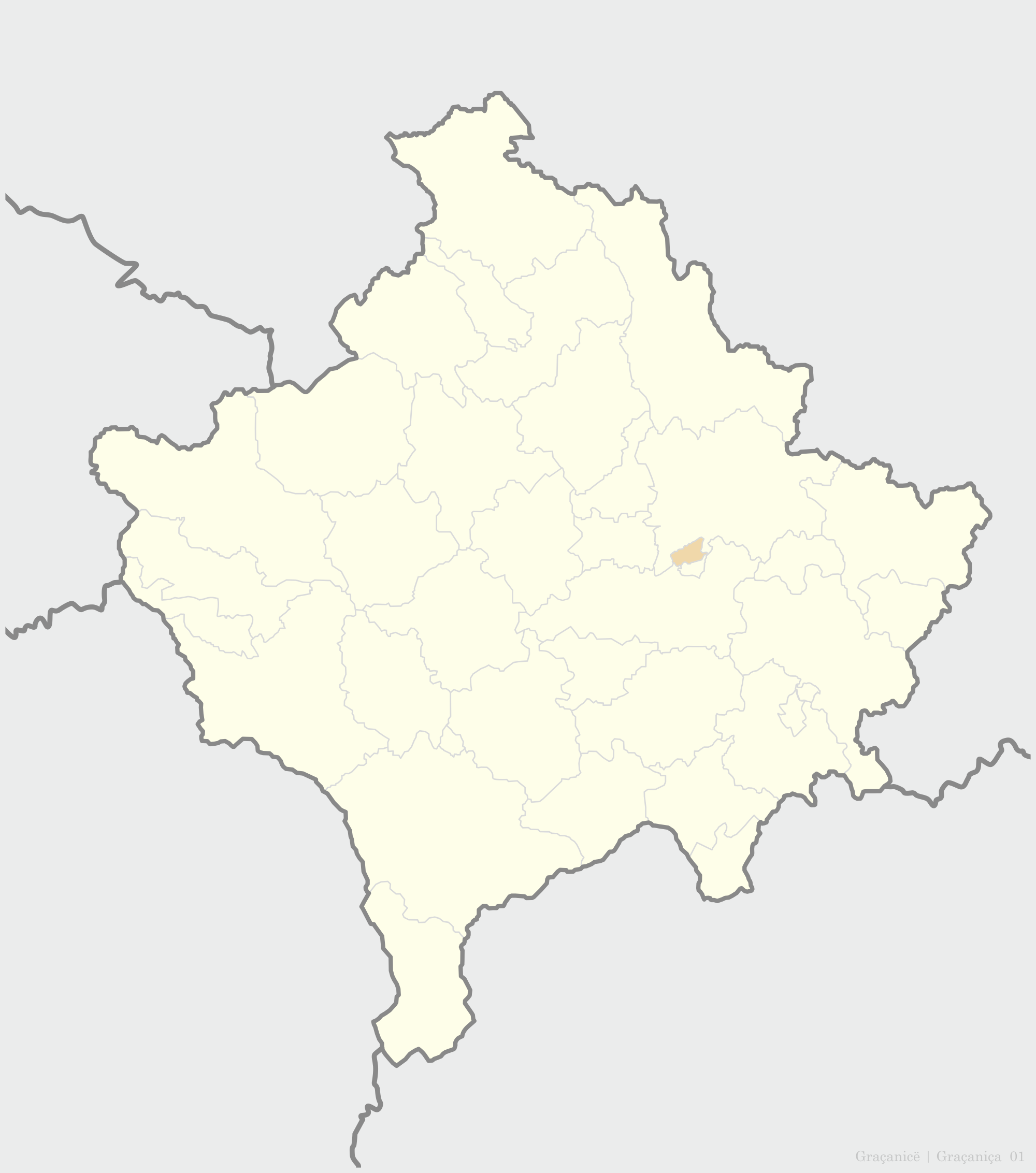 Municipality of Gracanica map